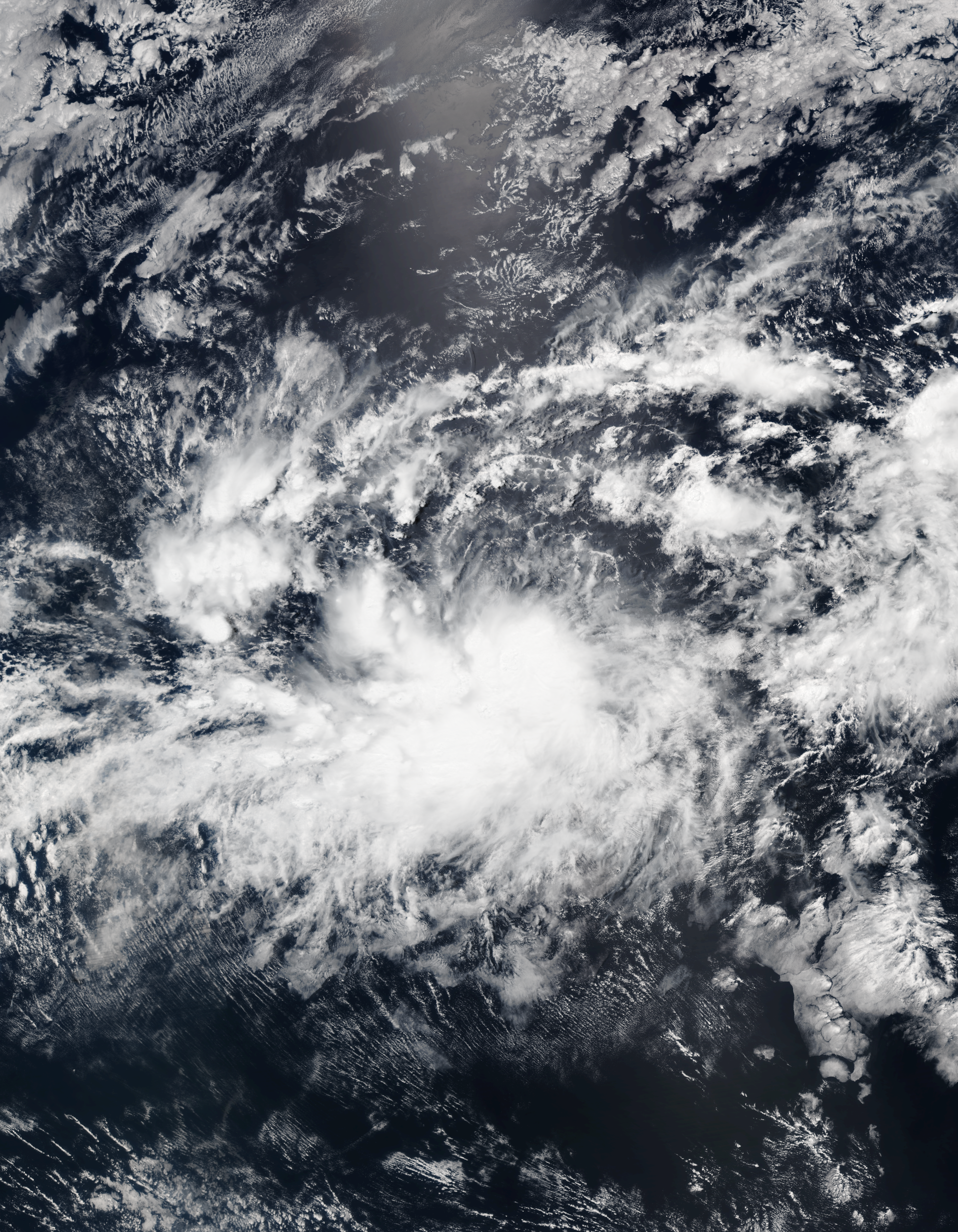 Tropical Storm Fausto on July 8 as viewed by Suomi NPP